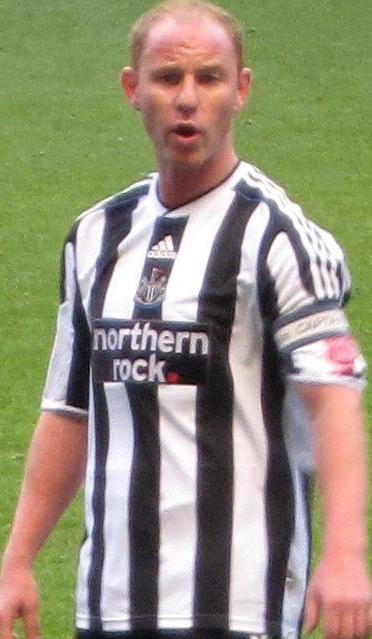 Cropped version of source depicting Nicky Butt playing for Newcastle United.